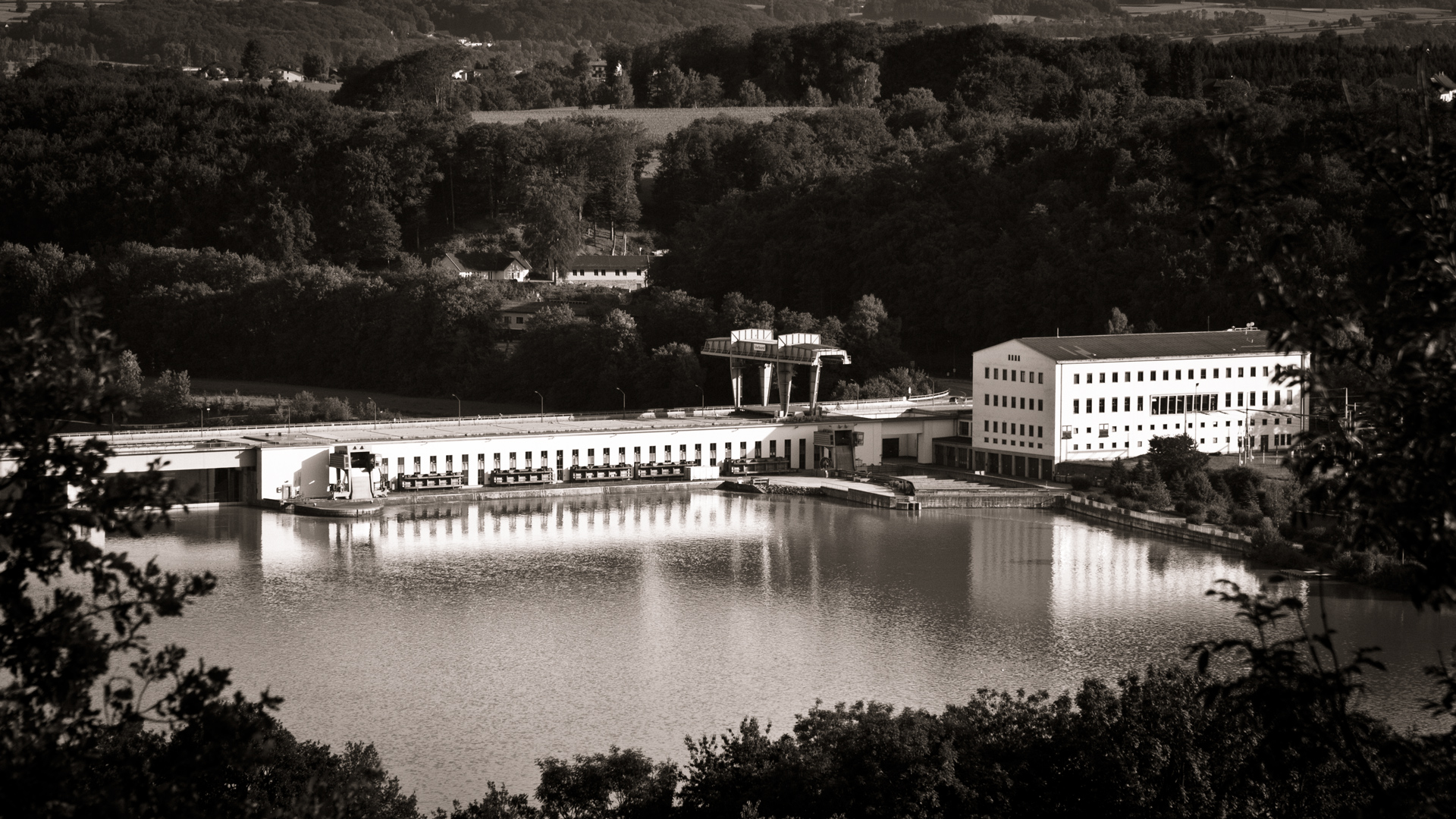 hydroelectric power station Ybbs Persenbeug, view in flow direction (SE)